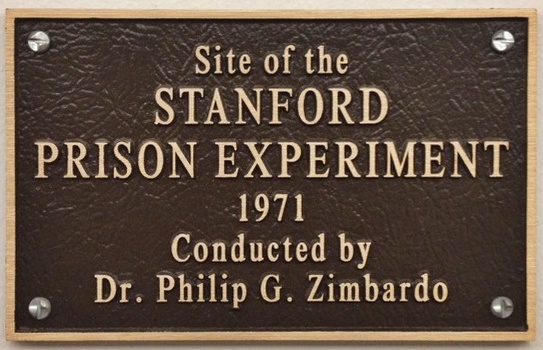 This image shows a plaque marking the site where the famous Stanford Prison Experiment was conducted. The point of this experiment was to study the psychological effects of students becoming either a prisoner or a prison guard. The students easily adapted to their roles, with the "prison guards" inflicting mental and physical abuse to the "helpless prisoners." The amount of harassment and torture occurring in the experiment is why it was abruptly ended after only six days.